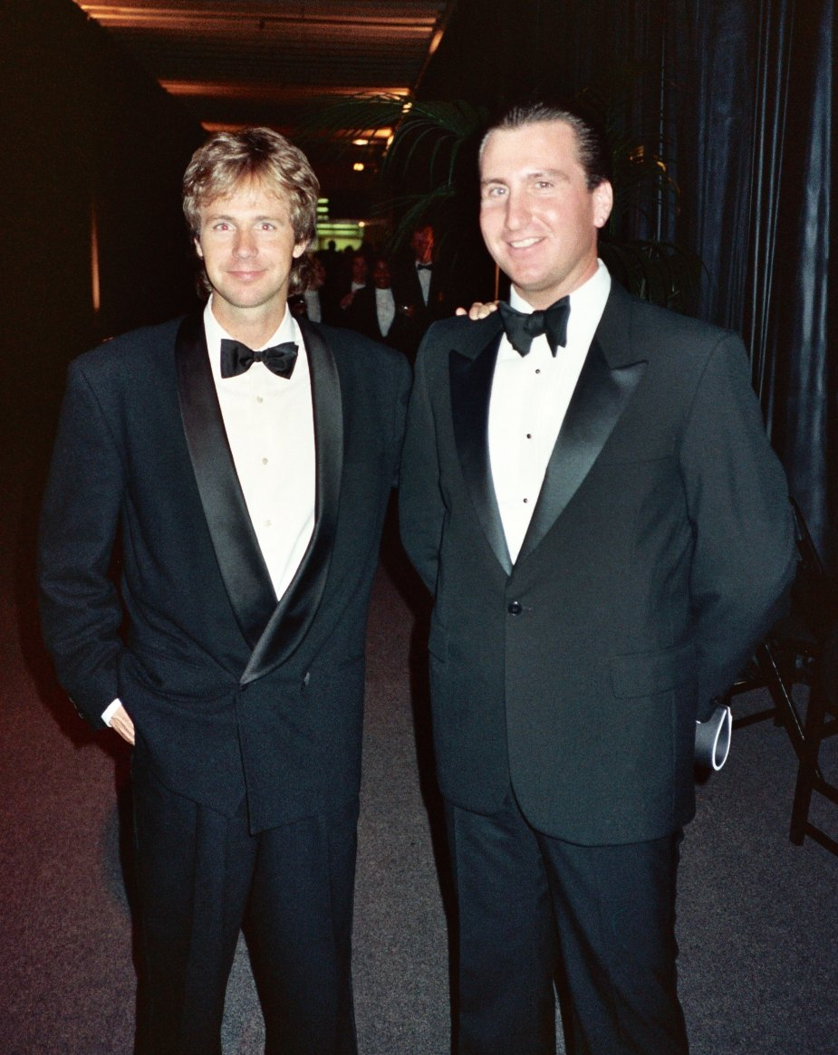 Dana Carvey and Mike Clark at the Governor's Ball following the 41st Annual Emmy Awards, 9/17/89